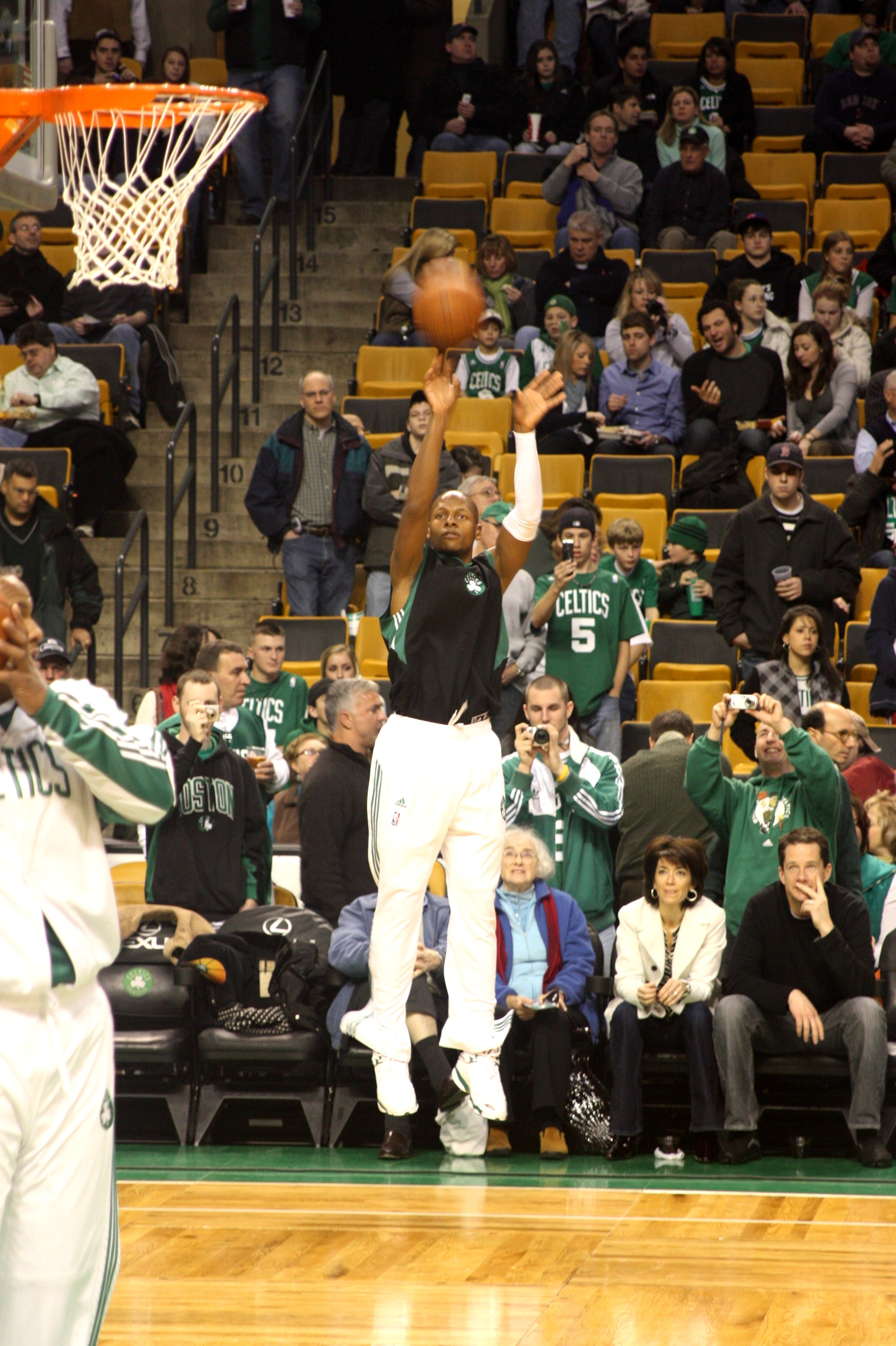 Ray Allen of the Boston Celtics, prior to a game against the Washington Wizards at TD Garden on 2 January 2009